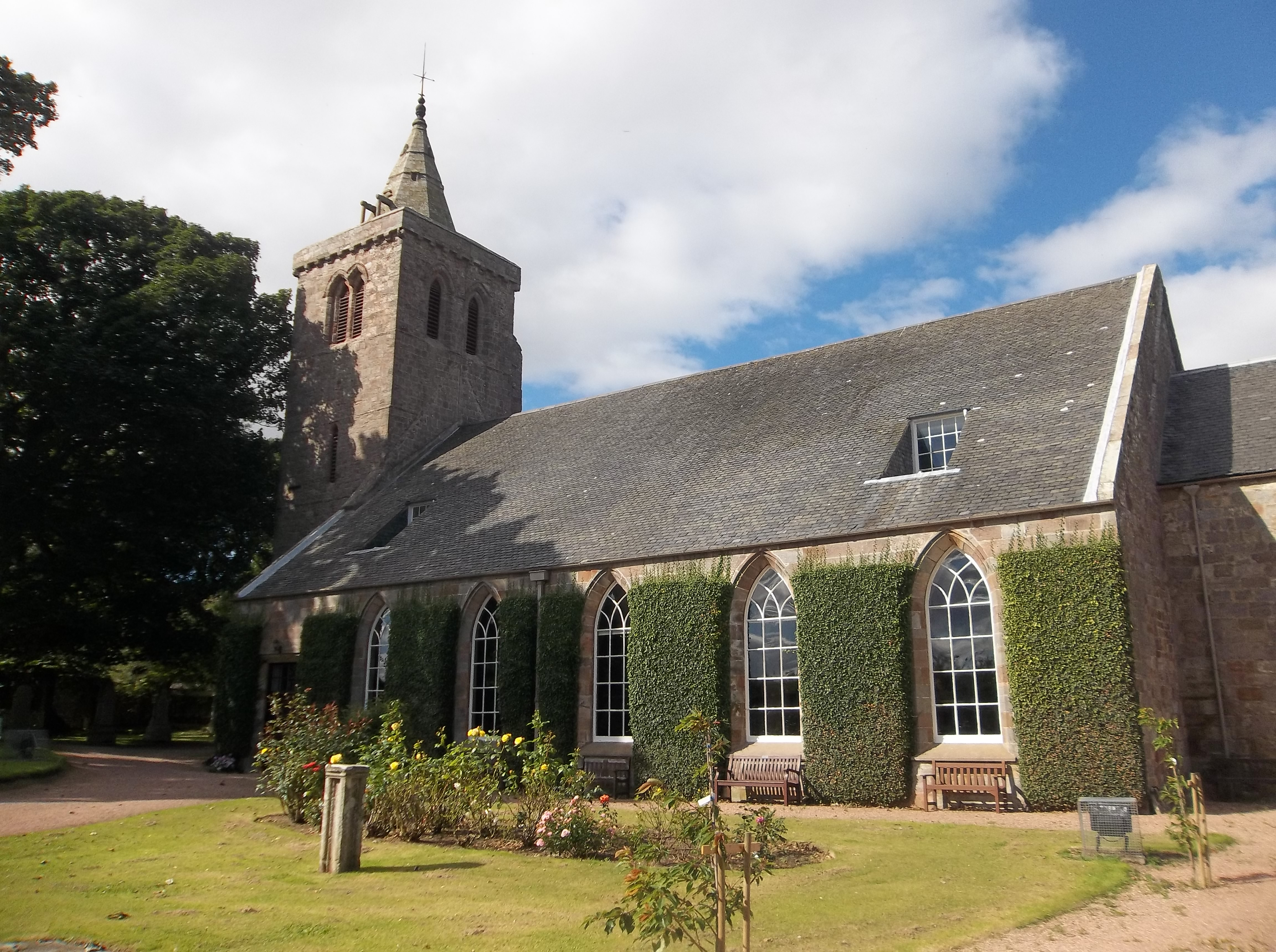 Crail Parish Church in early September.